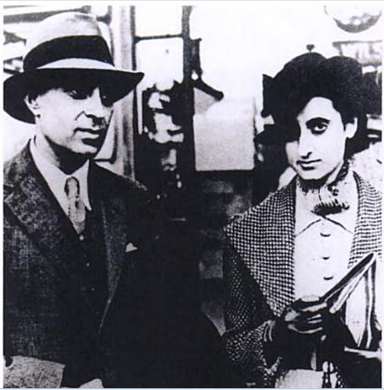 Jawaharlal Nehru and his daughter Indira in England